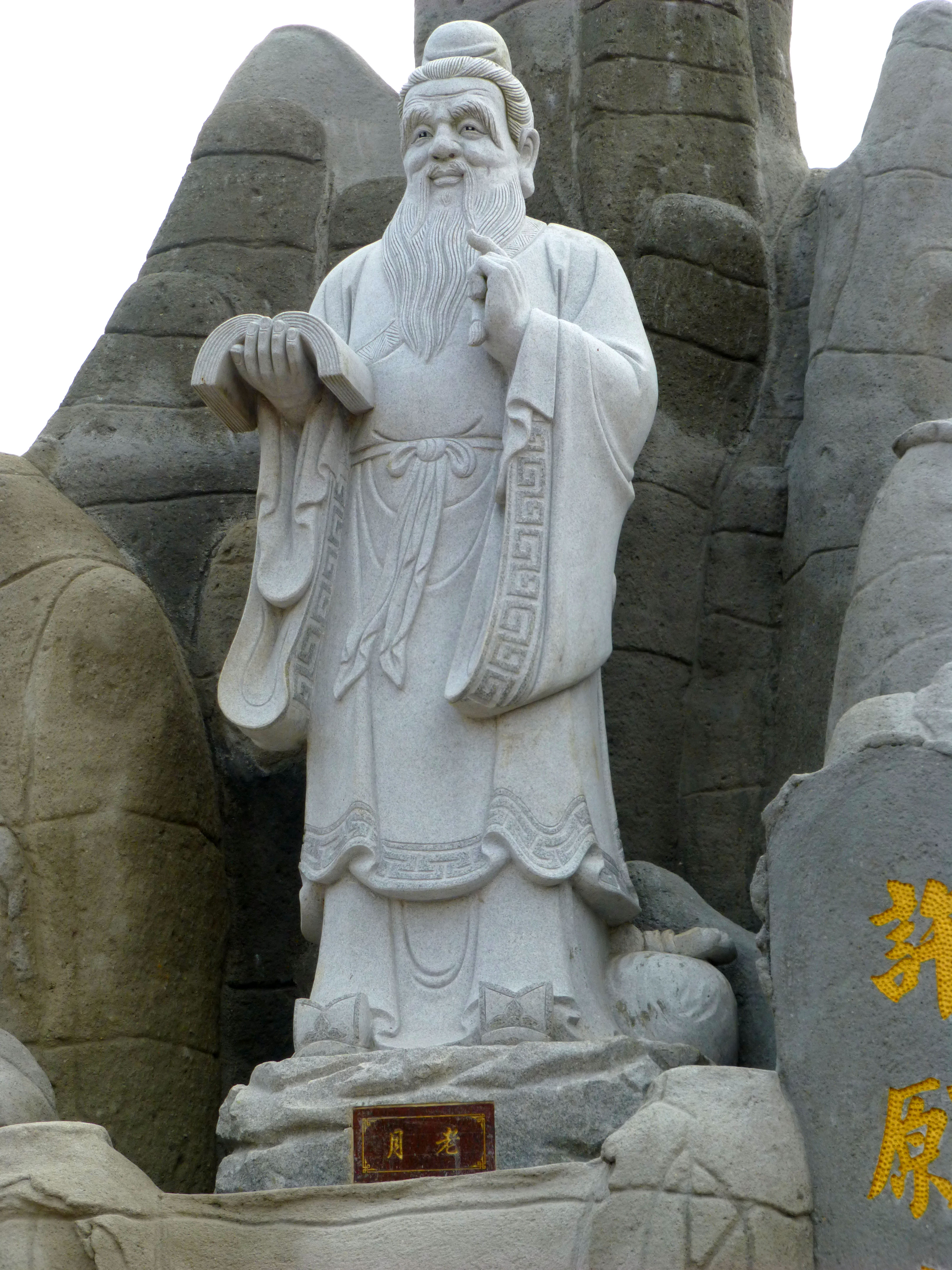 122 Yue Lao, at Ping Sien Si, Pasir Panjang, Perak, Malaysia Photograph from Ping Sien Si Temple in Perak, Malaysia taken by Anandajoti.